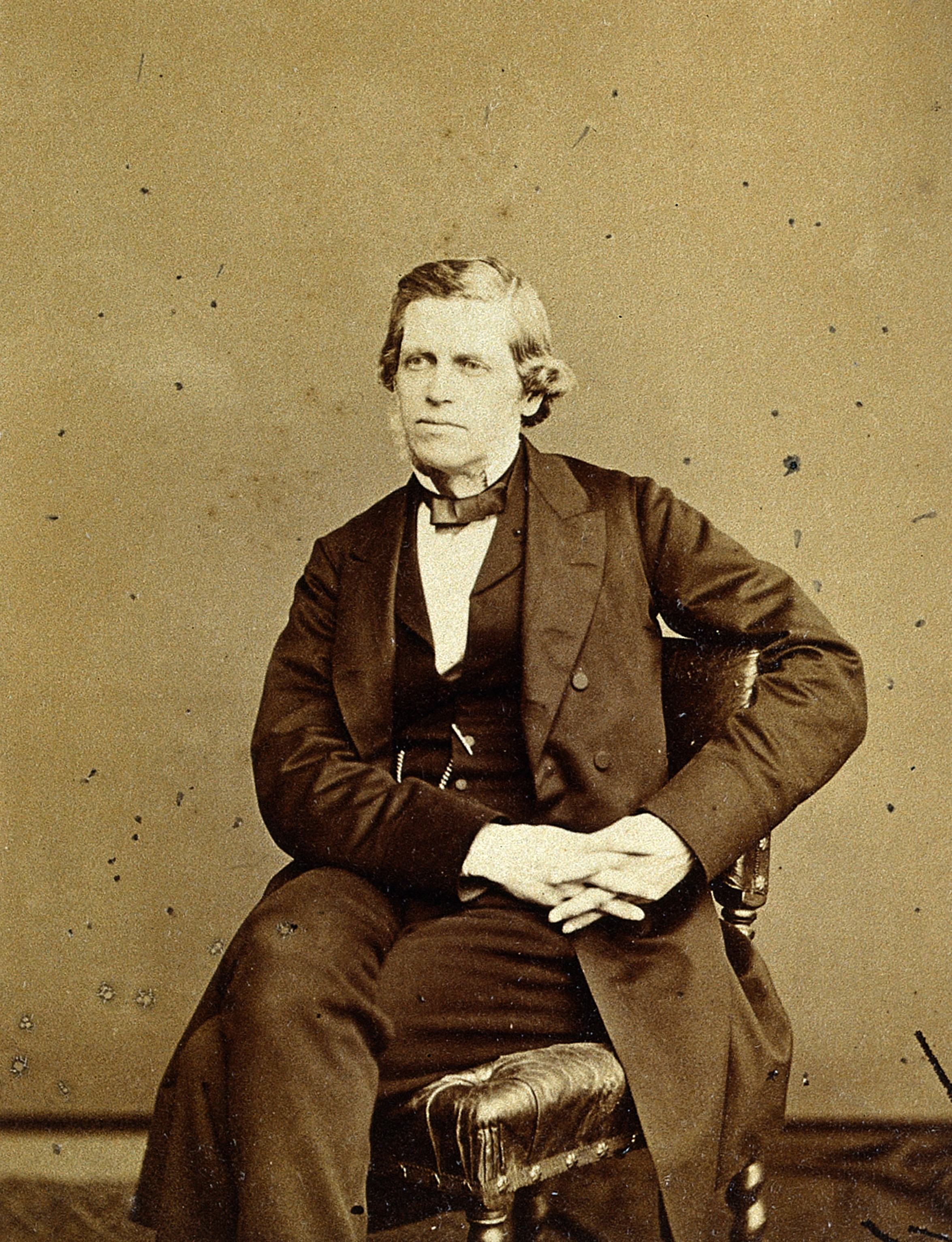 Sir William Bowman. Photograph by Ernest Edwards, 1867. Iconographic Collections Keywords: portrait photographs